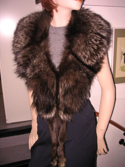 Old silver fox collar.